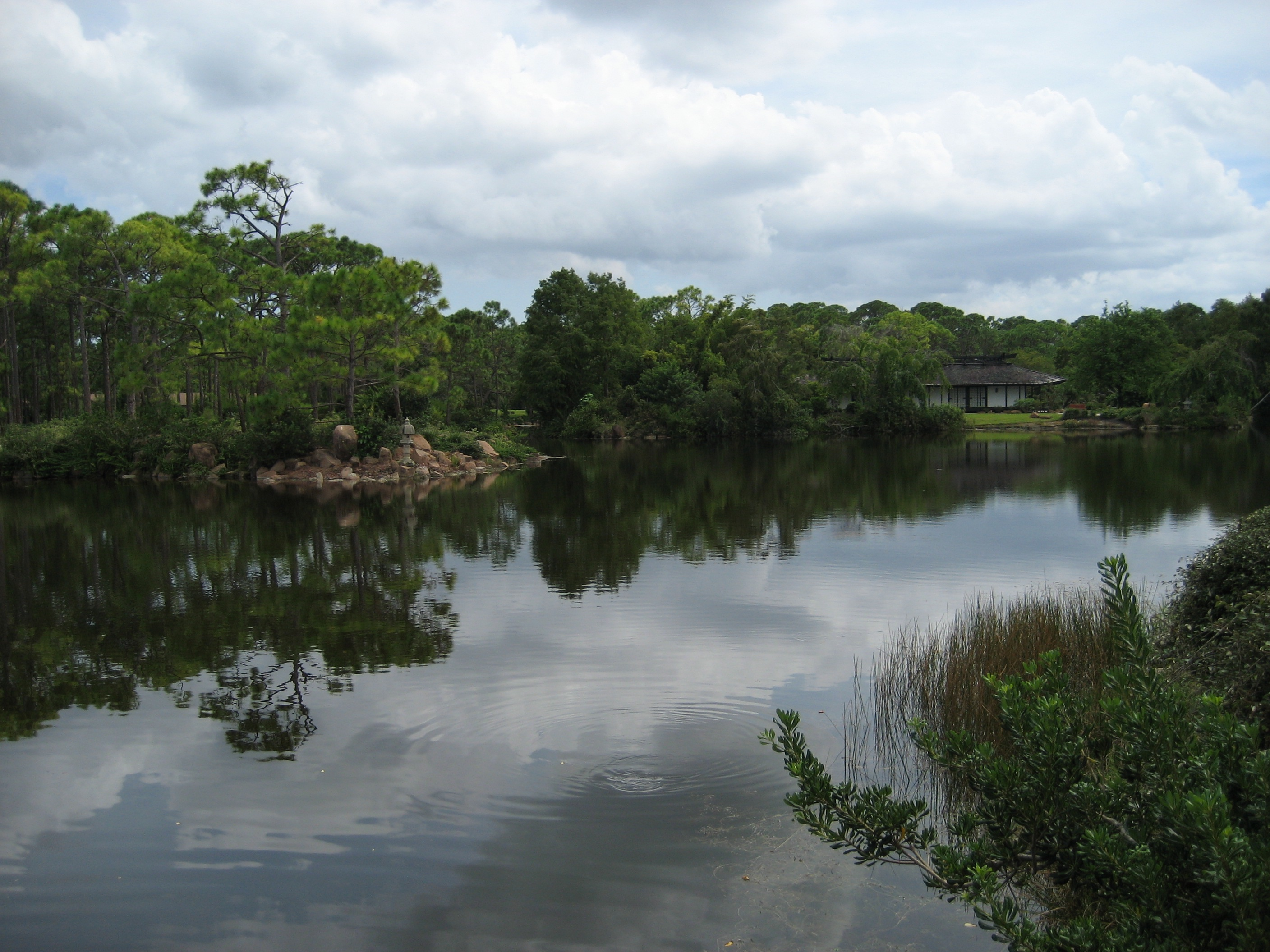 Morikami Museum garden grounds, Palm Beach County, Florida.